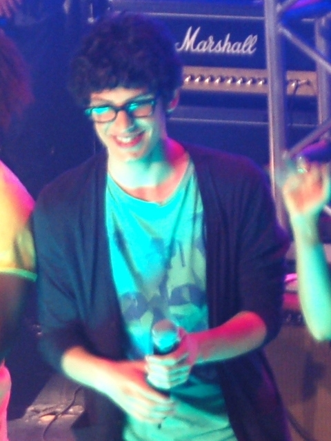 Matt Bennett with the rest of the Victorious cast performing at Avalon Hollywood.